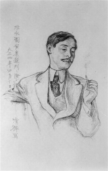 Sugiura Hisui by Kuroda Seiki, Naitonal Museum of Modern Art, Tokyo, Japan